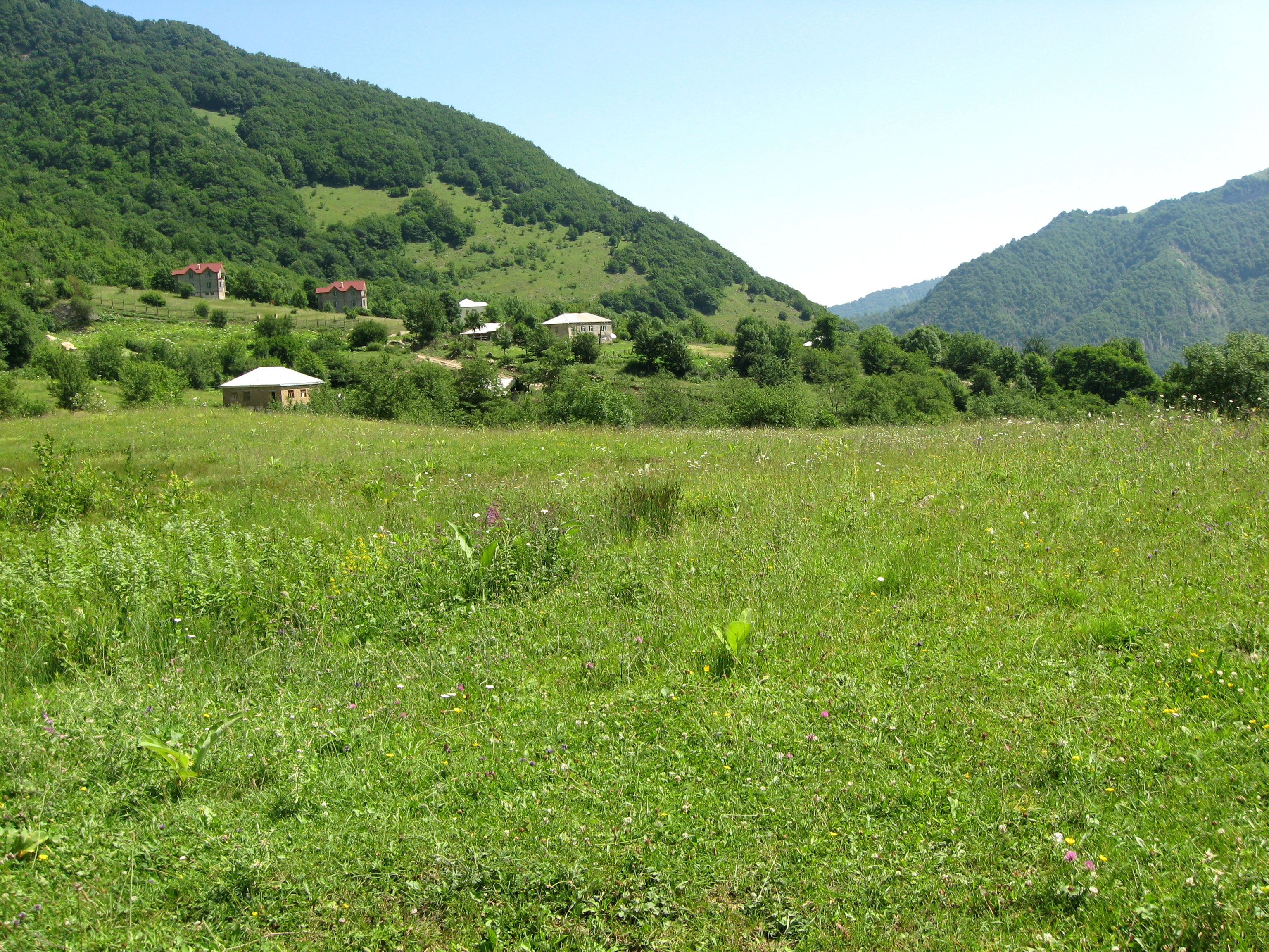 Azerbaijan, Guba, Gachresh